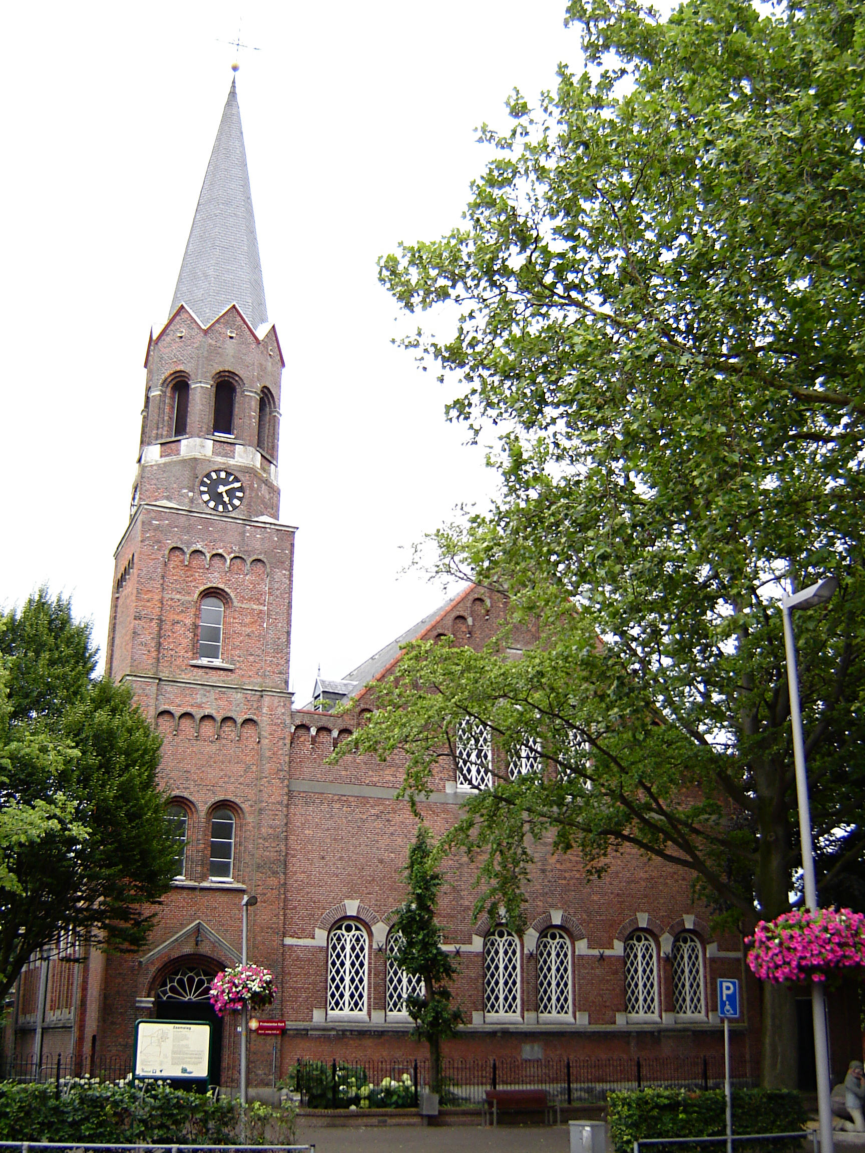 Church of the Protestant Church in the Netherlands in Zaamslag. Zaamslag, Terneuzen, Zeeland, Netherlands.